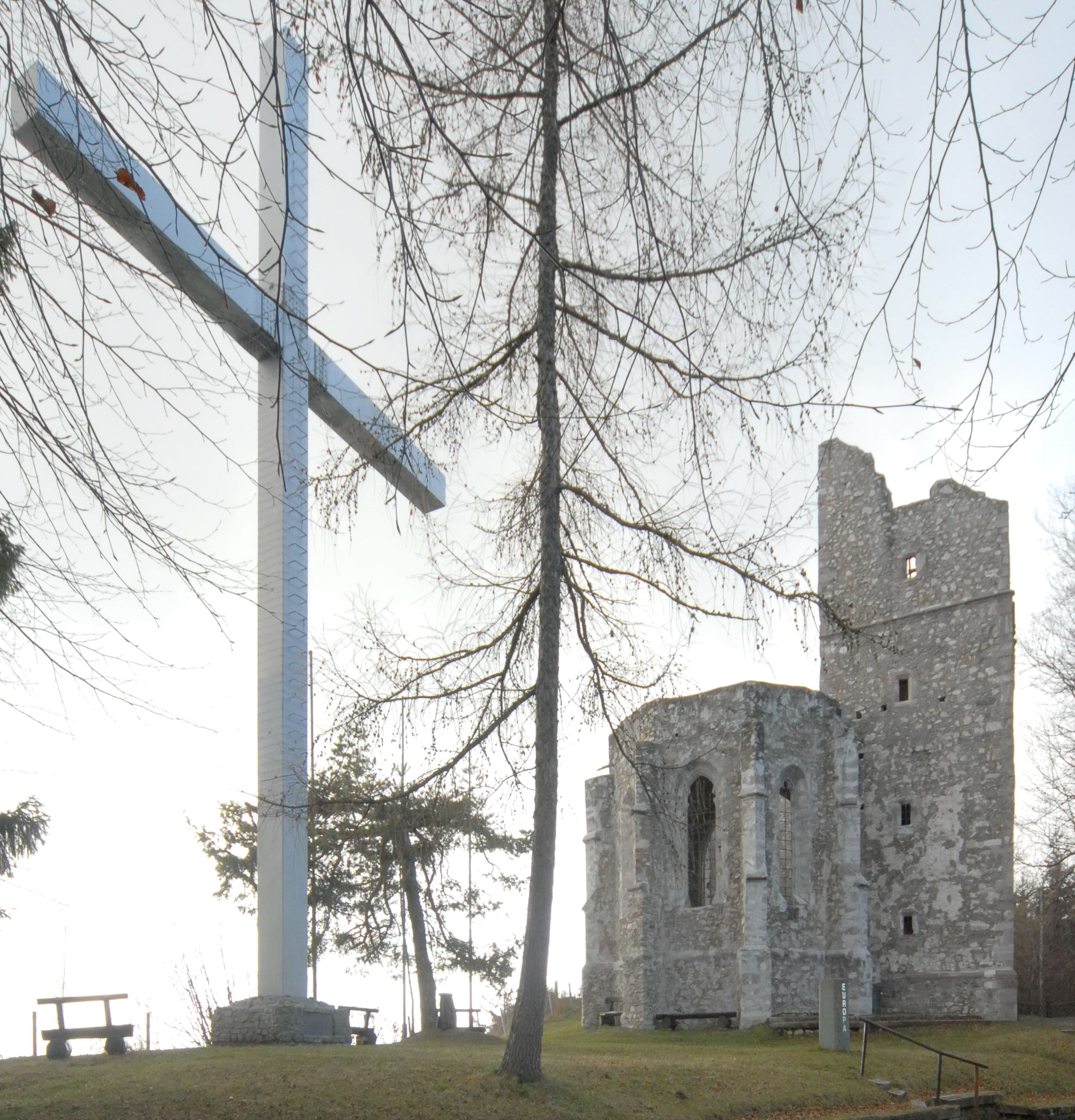 Memorial on top of Mount Ulrich at Saint Peter on the Bichl in the 14th district Woelfnitz of the Carinthian capital Klagenfurt on the Lake Woerth, Carinthia, Austria